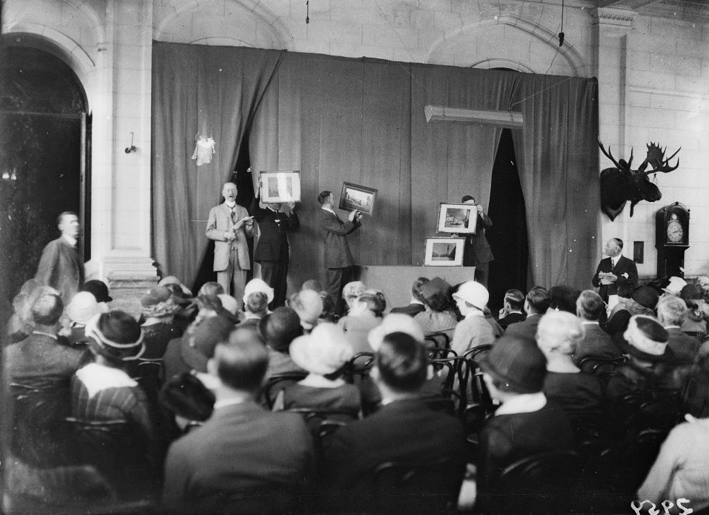 Auction Sale, Casa Loma, 1 Austin Terrace, Toronto, Ontario, Canada; June 23, 1924; Fonds 1266, Item 2959.